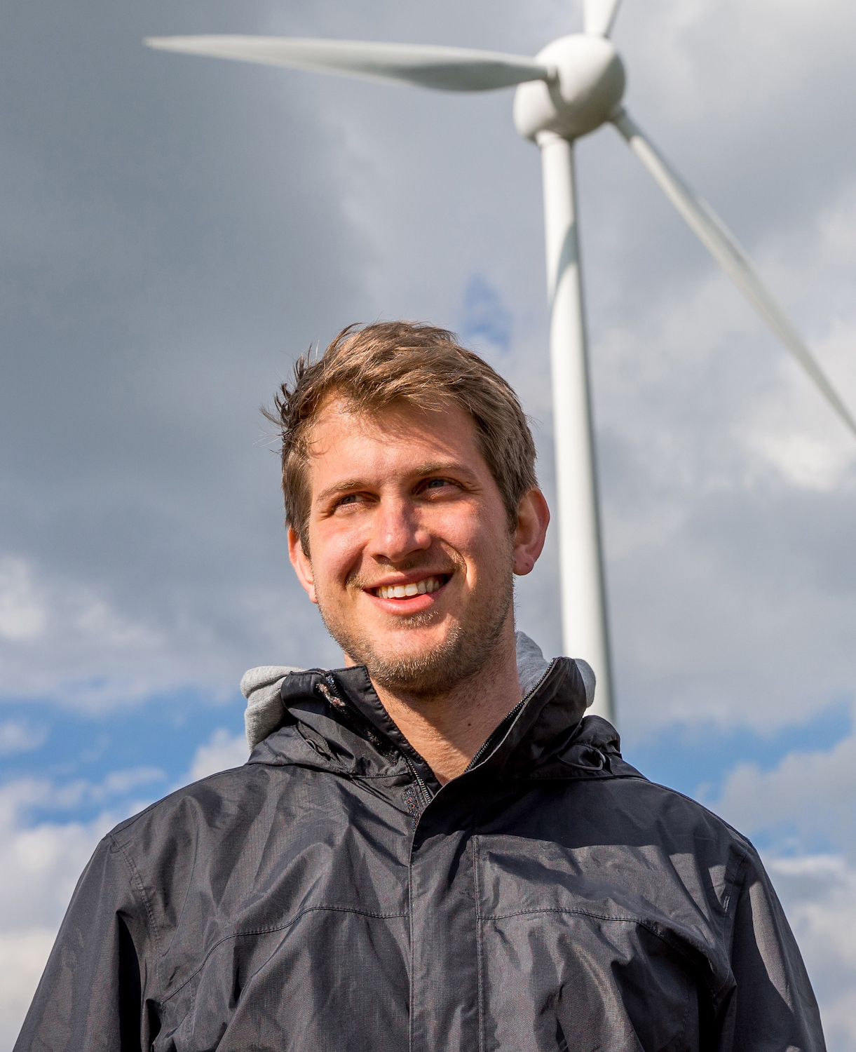 Michael Bloss on the European Climate Tour in Eeklo, Belgium